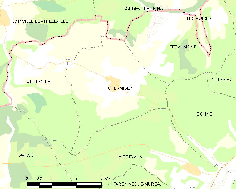 Map of French municipality Chermisey